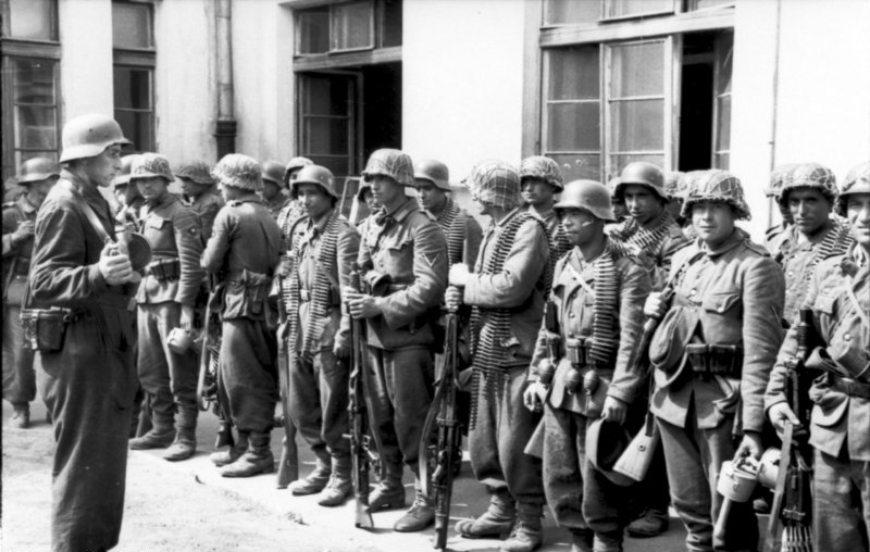 Warsaw Uprising. Soldiers of Aserbeidschanische Feld-Bataillon I./111 - Azeri volunteer formation which fought on Germany's side.